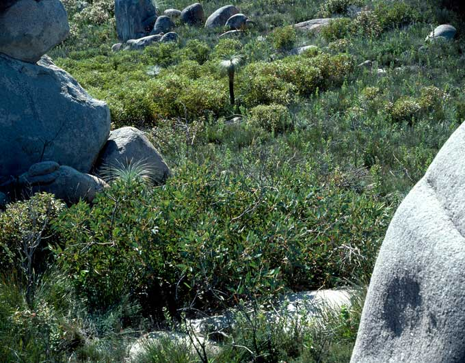 Eucalyptus acies growing on Mount Manypeaks